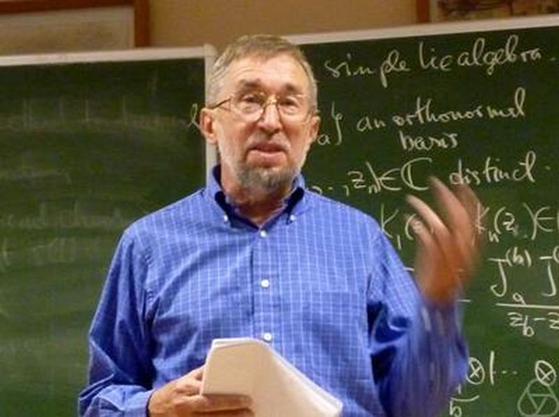 Alexander Varchenko, El Escorial 2010